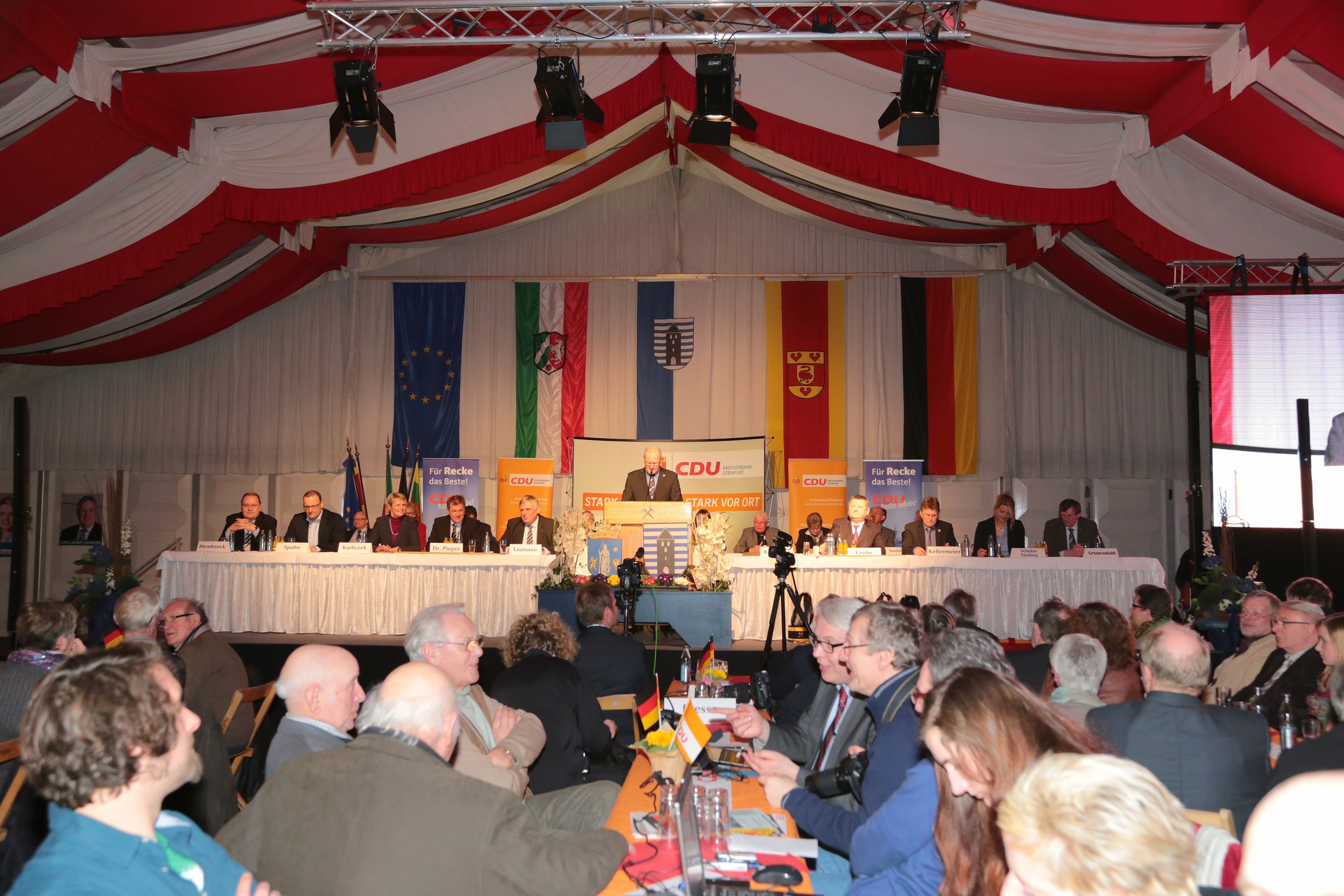 The 13th Political Ash Wednesday (Politischer Aschermittwoch) of the CDU-Kreisverband Steinfurt in Recke, Kreis Steinfurt, North Rhine-Westphalia, Germany. The politicians on the podoium.